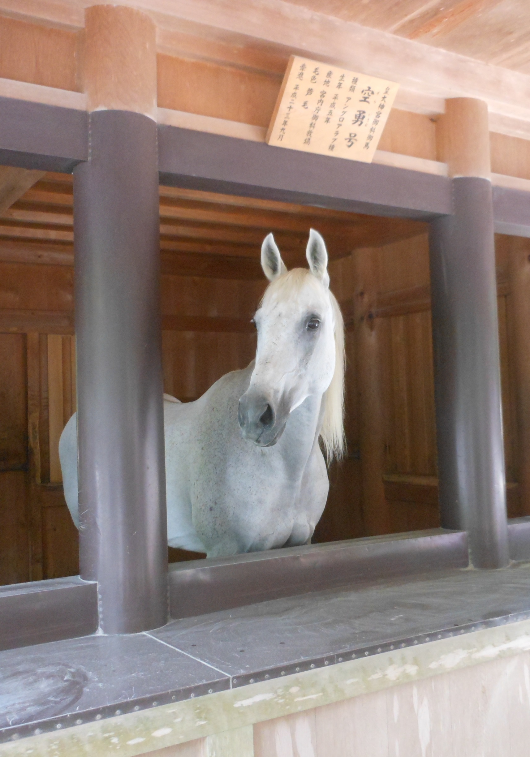 This horse is Shinme or God Horse in Ise Jingu. Horse name is Soraisamugo.